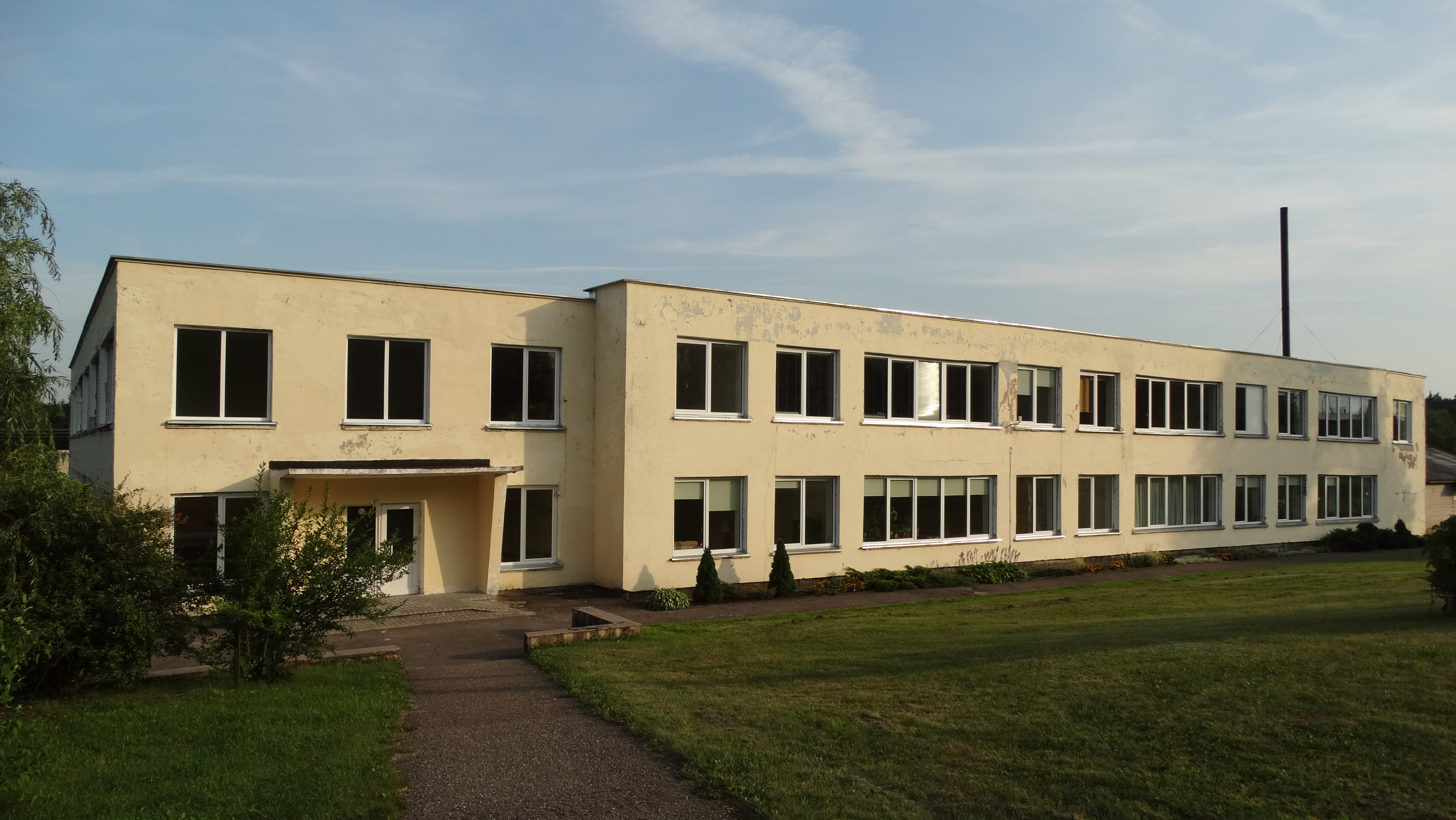 Cirkliškis, Center of Vocational Training, Švenčionys District, Lithuania